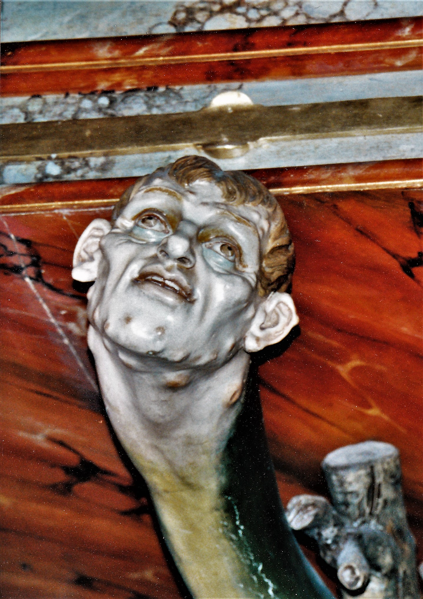 Sankt Bartholomäus (Reichenthal), pulpit (1896) - Seven deadly sins: lust